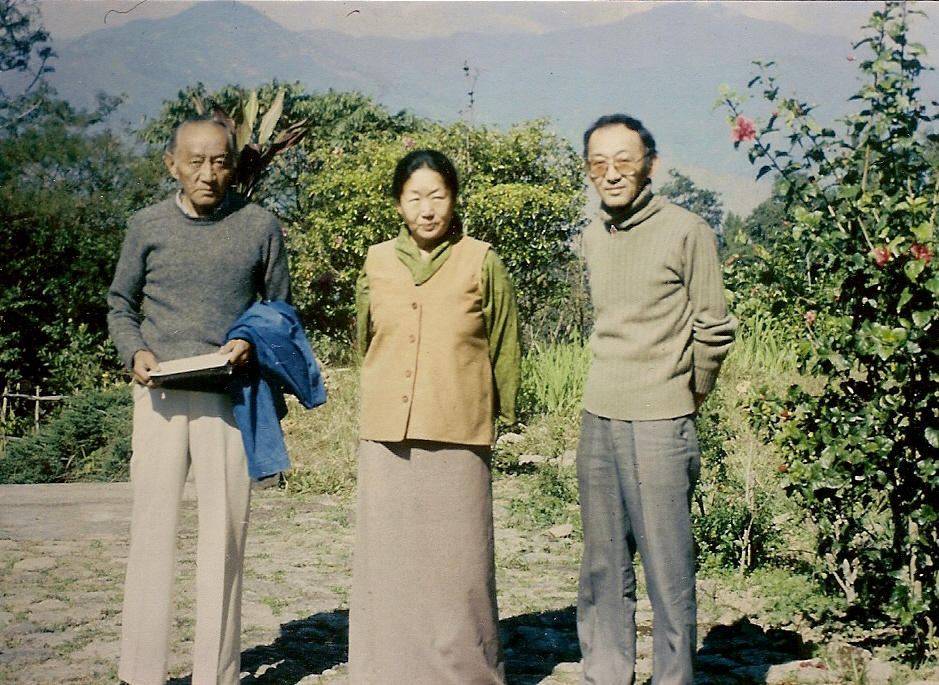 Dundul Namgyal Tsarong, Yangchen Dolkar Tsarong and Tsewang Jigme Tsarong in Kalimpong (1986)